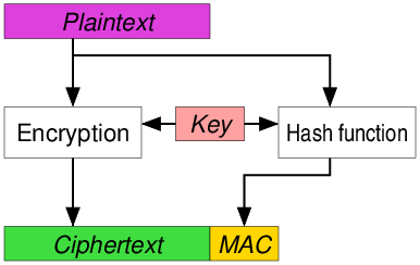 Authenticated encryption scheme "Encrypt And Mac" (E&M)